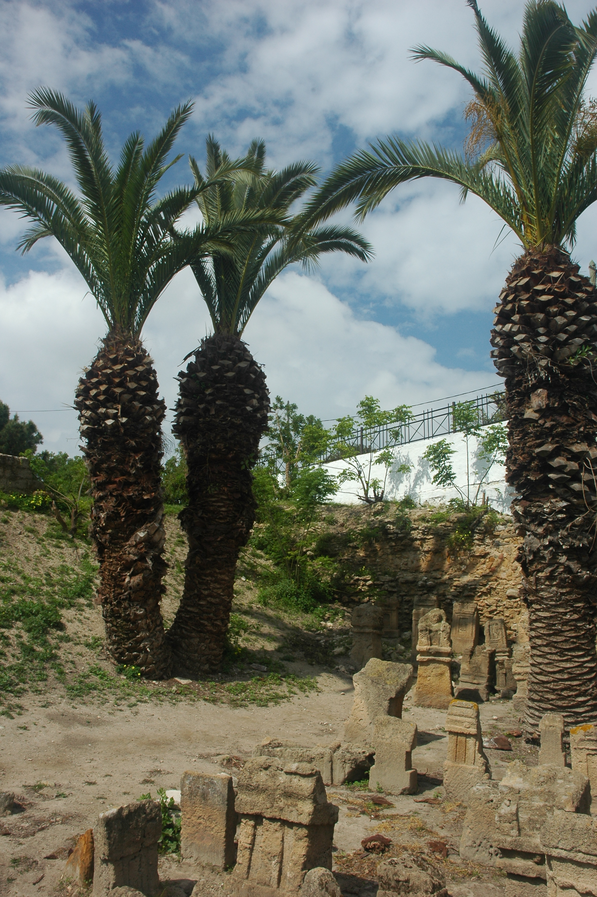 Tophet Salambo Carthage Tunisie